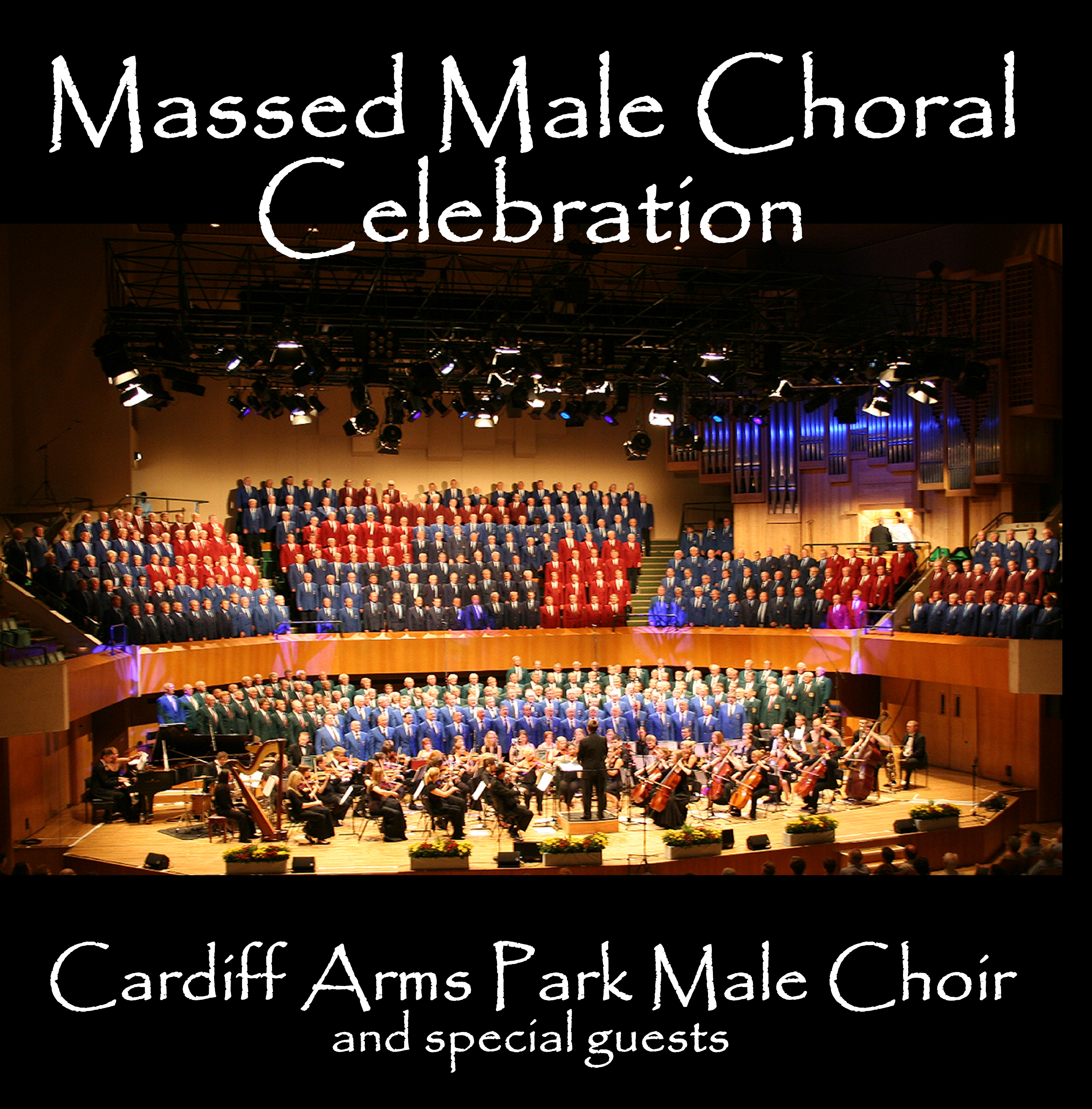 Cover of Cardiff Arms Park Male Choir CD Massed Male Choral Celebration